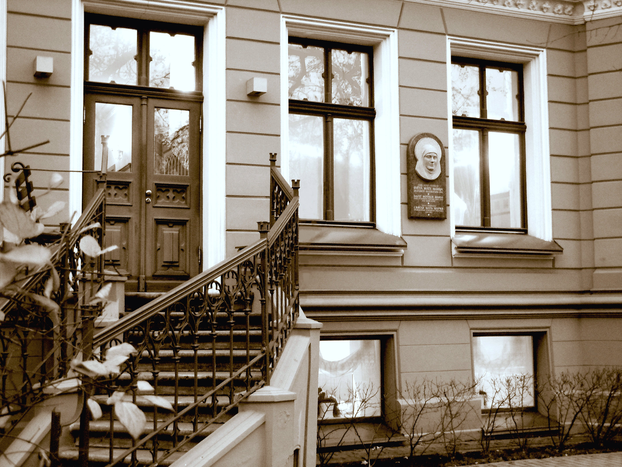 Riga. Elizabetes street 21.